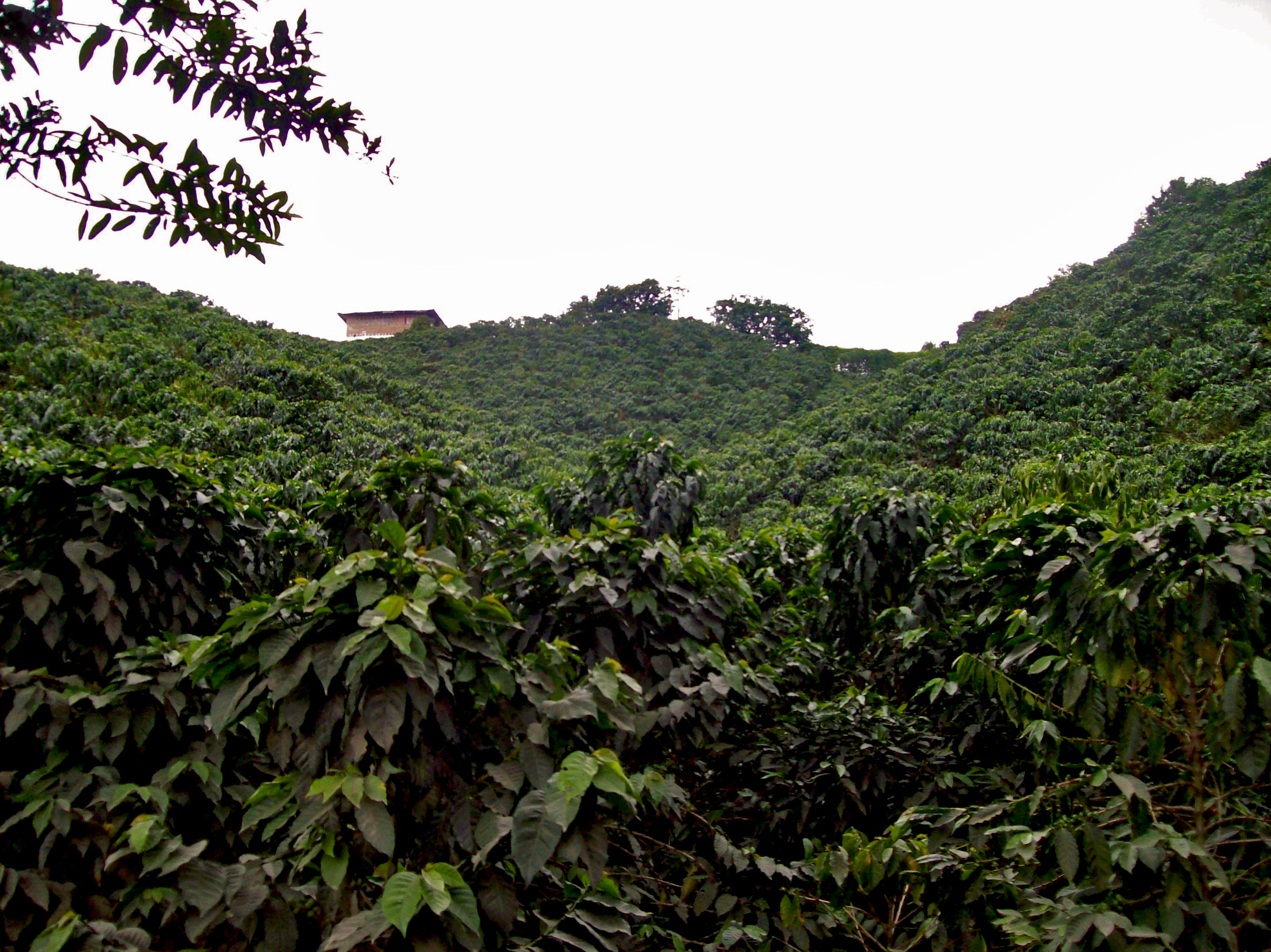 Photograpy of an Arabiga Coffee growing in Chinchiná, Caldas, Colombia.